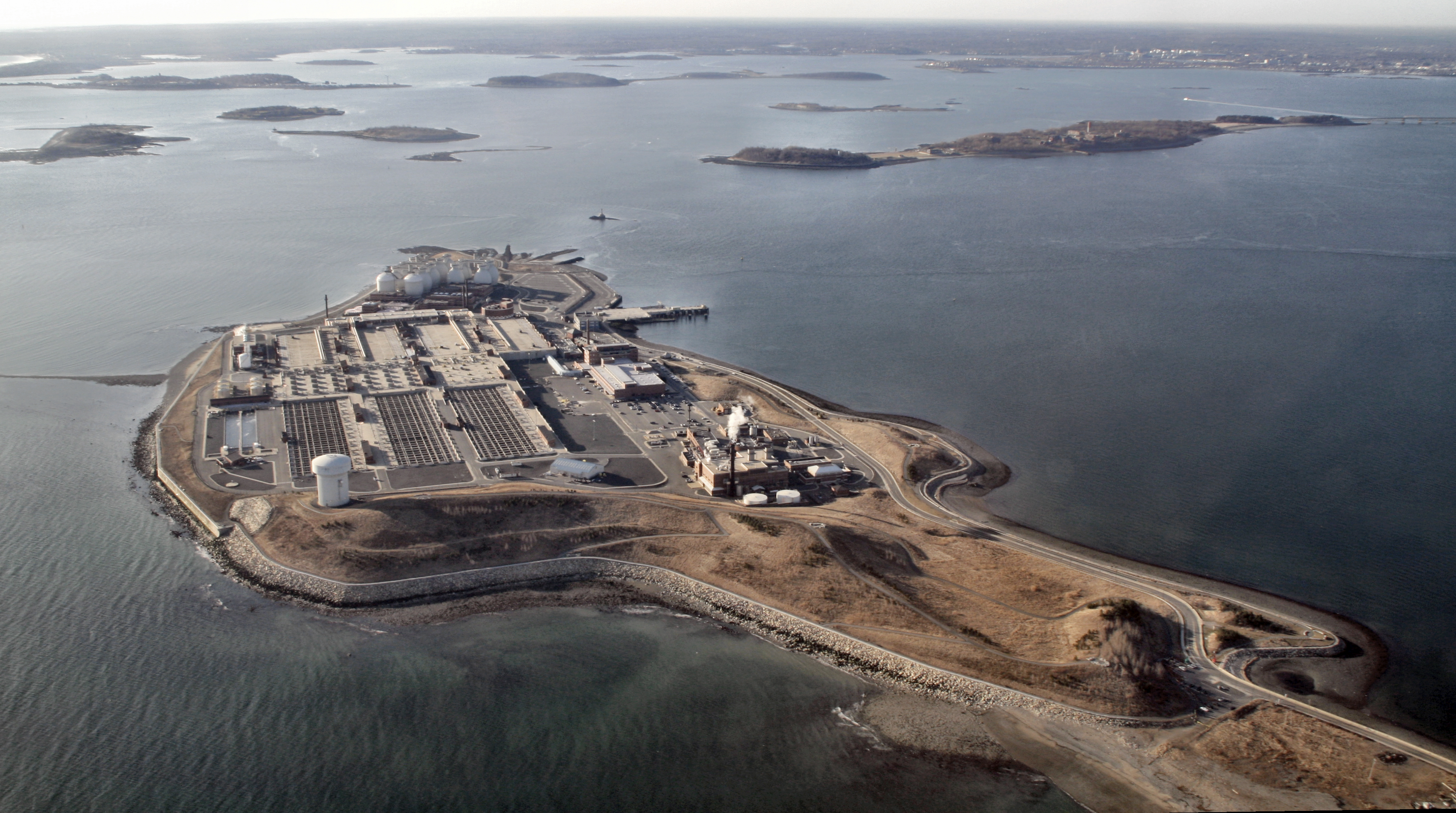 From Google Earth: "HARBOR DEFENSES of BOSTON Fort Dawes (1941 - 1960's) Deer Island Originally named Deer Island Military Reservation (1898 - 1941), which consisted solely of searchlight stations (1916), and fire-control and mine observation stations (1906, 1920's). WWII batteries here were Battery 105 (1944, never armed), Battery 207 (1943, never armed), Battery Taylor (1942 - 1943), AMTB Battery 944 (1943 - 1946), and an AA battery. Also here in WWII was a U.S. Navy RDF station, an HECP (1941), and a mine casemate (1944), which replaced the one at Fort Strong. All of these were destroyed by 1988 for expanding the modern waste water treatment plant. Beginning in 1948, the post was used for Air Force radar and electronics experiments, as well as Navy harbor defense functions. From 1951 - 1955, there were four 90mm AA guns emplaced here."